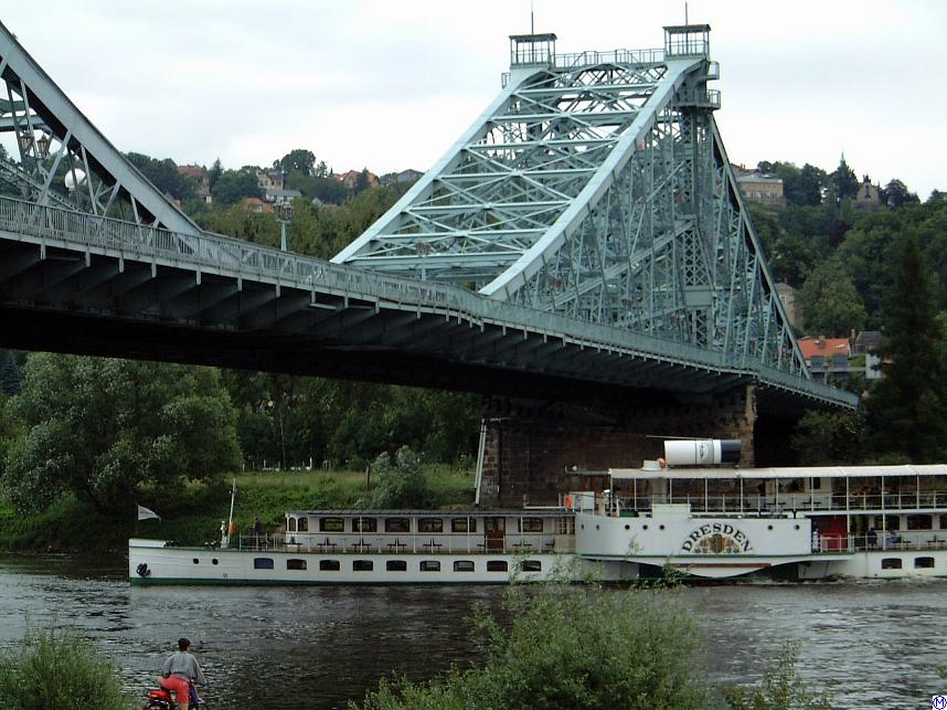 Paddle Steamer “Dresden” passing Elbe-Bridge Blue Wonder